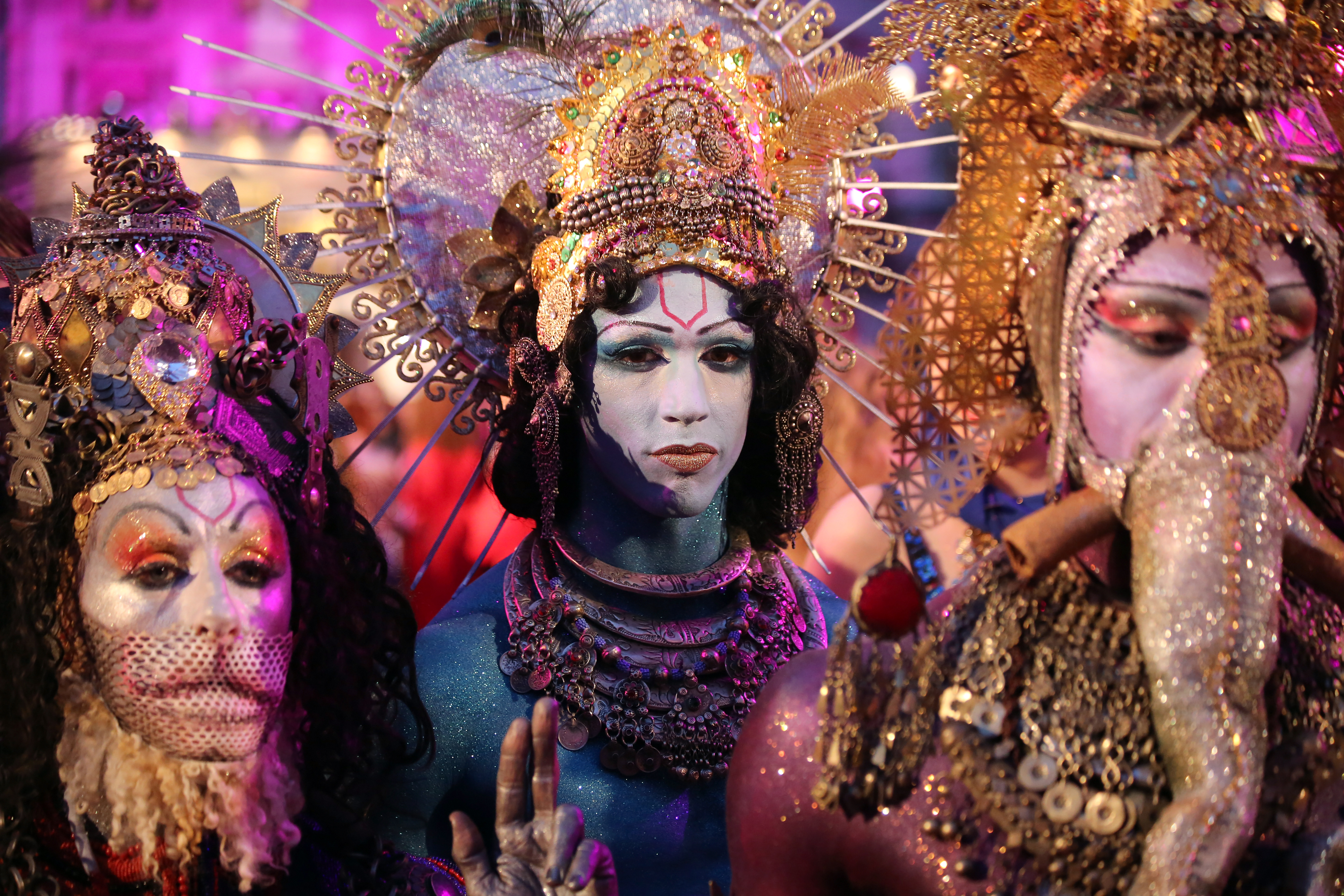 Performance artists of Celestial Tableau by Darrell Thorne & The Gods, arrival on the 'magenta carpet' at Life Ball 2013 at the square in front of the city hall of Vienna, Vienna, Austria.